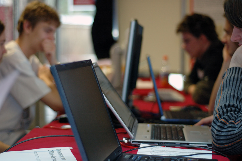 This image shows the Wikipedia stand at the Linux day in Chemnitz 2007.